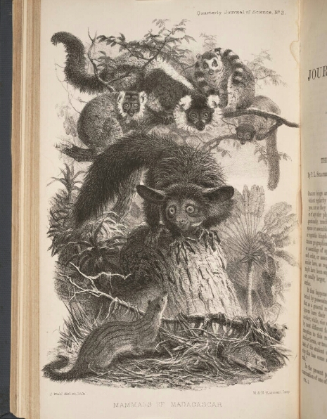 Page from the article "The Mammals of Madagascar" (from the scientific magazine Quarterly Journal of Science) by the British zoologist Philip Sclater with a litographic image of typical mammals.